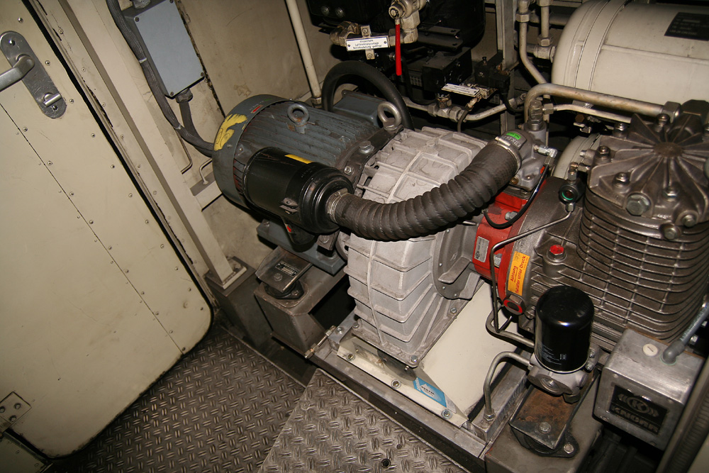 Air compressor of an ICE 1 high-speed train